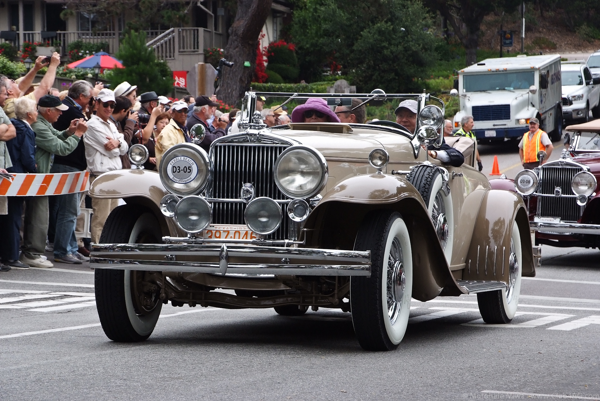 1933 Stutz DV-32 LeBaron roadster Monterey_Historics_2011-10-134